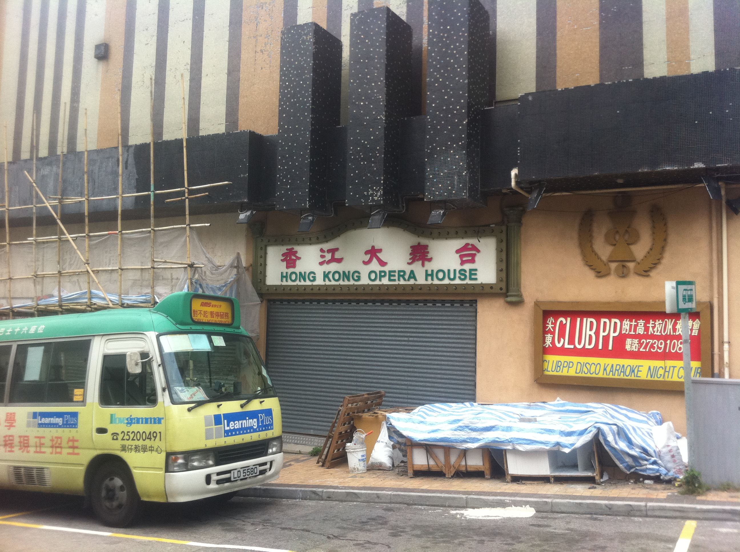 香江大舞台 Hong Kong Opera House, 華富邨 華樂徑, Lok Wah Path, Wah Fu Estate, Hong Kong